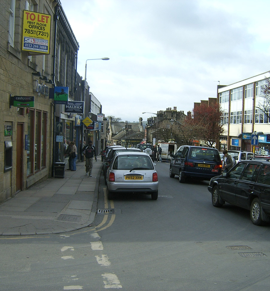 Horsforth, Leeds.